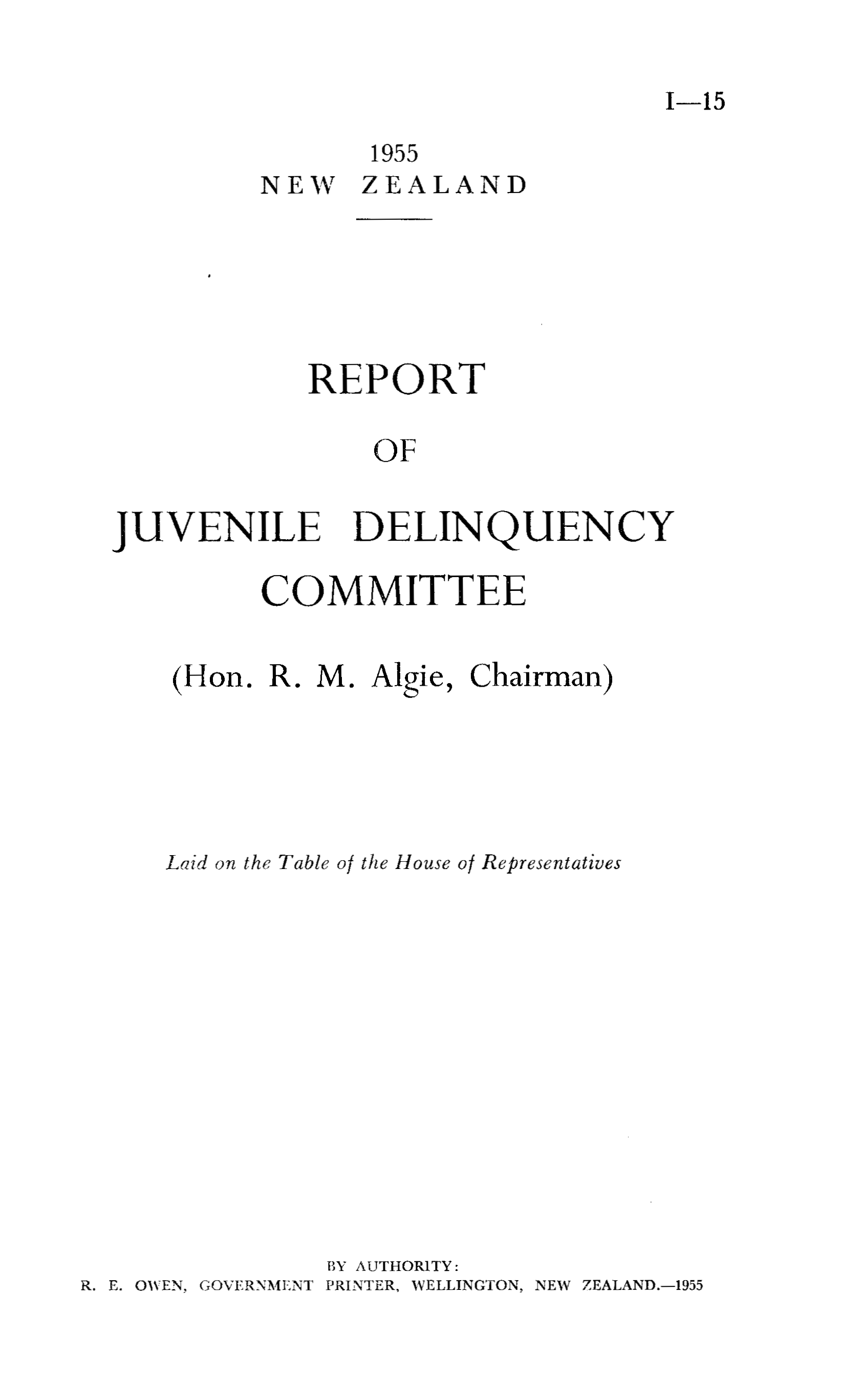 Cover page of the Report of the Juvenile Delinquency Committee of 1955, which followed on from the Mazengarb Report of the previous year. Scanned image downloaded from the book gallery at A facsimile of the Report of the Juvenile Delinquency Committee at ibiblio